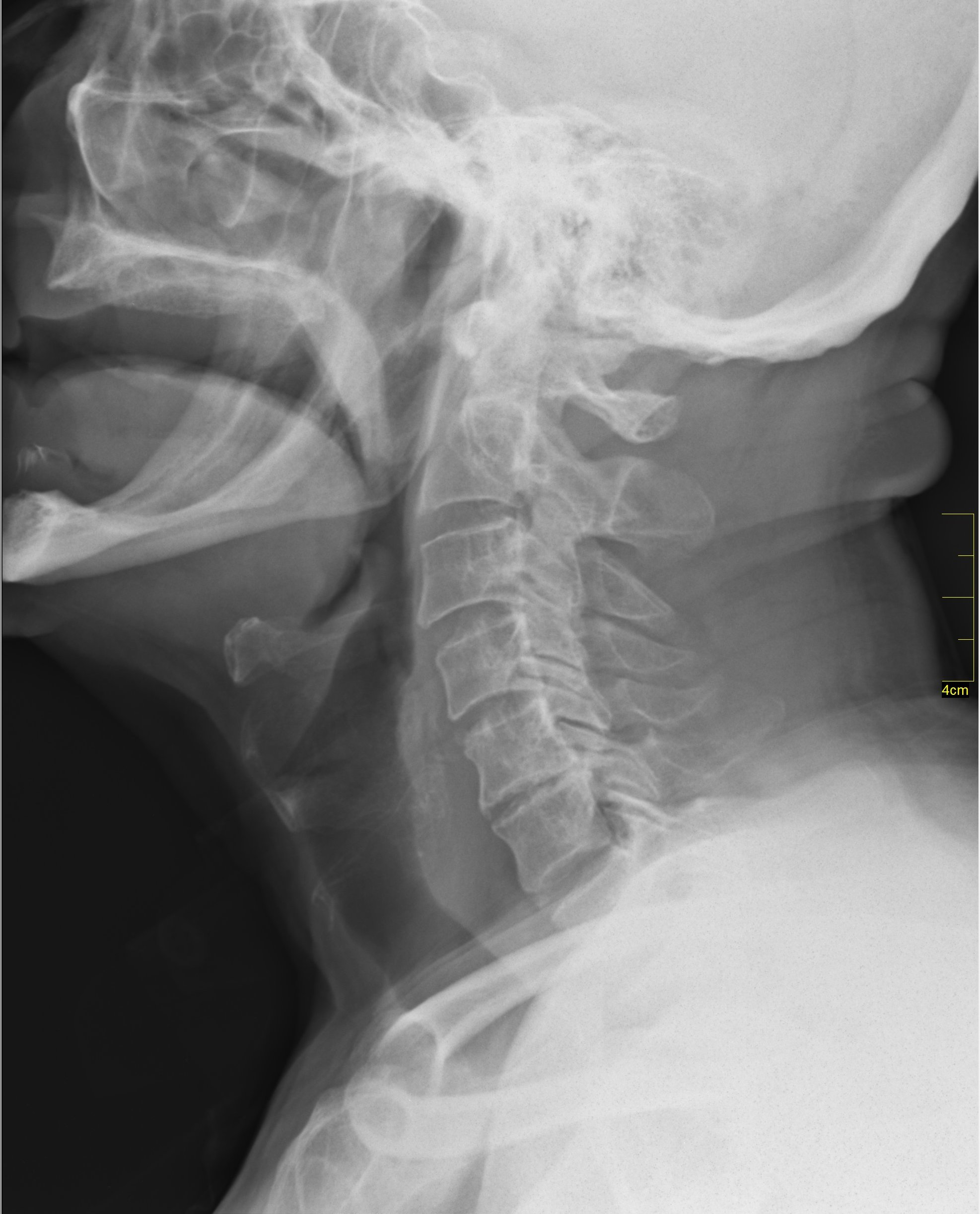 Medical X-rays.